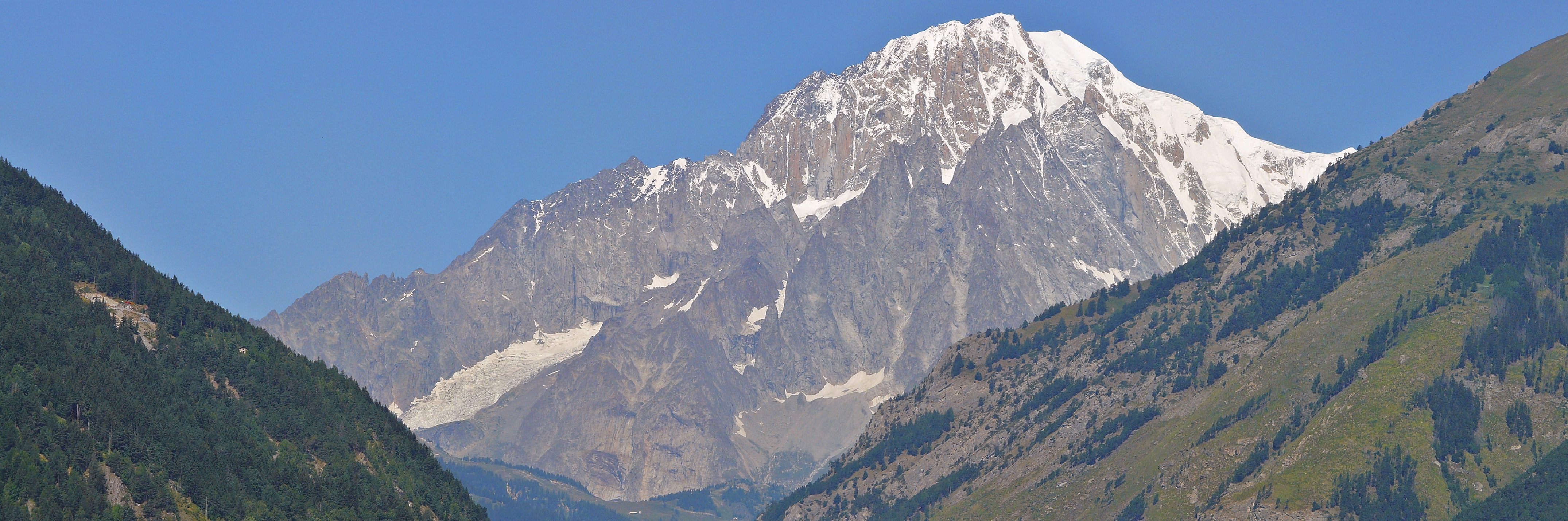 Mont Blanc as seen from between Aosta and Pré-Saint-Didier in Valle d'Aosta, Italy in 2009 July.